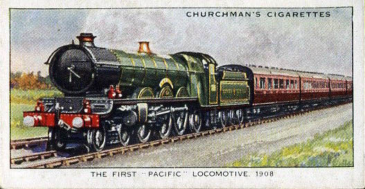 Cigarette card, locomotives series by Churchman's (Imperial Tobacco Co.)